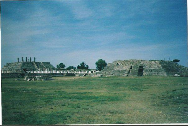 Side view of the ruins of Tula de Allende